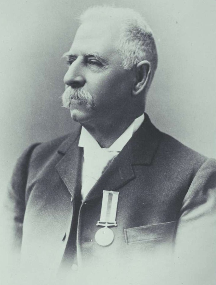 Edwin Gordon Blackmore From the 1898 Australasian Federal Convention Album.